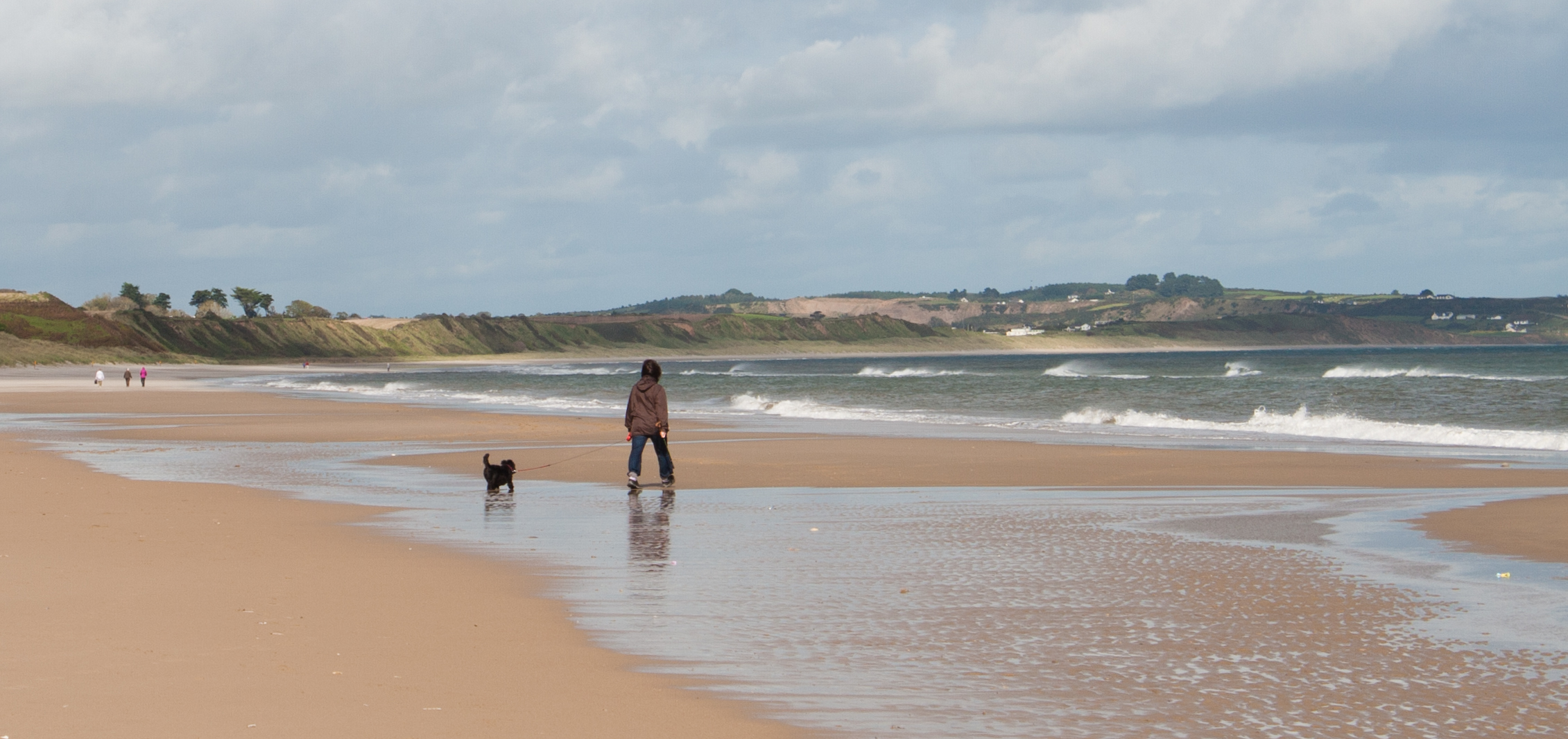 Curracloe Beach at the White Gap, looking north.